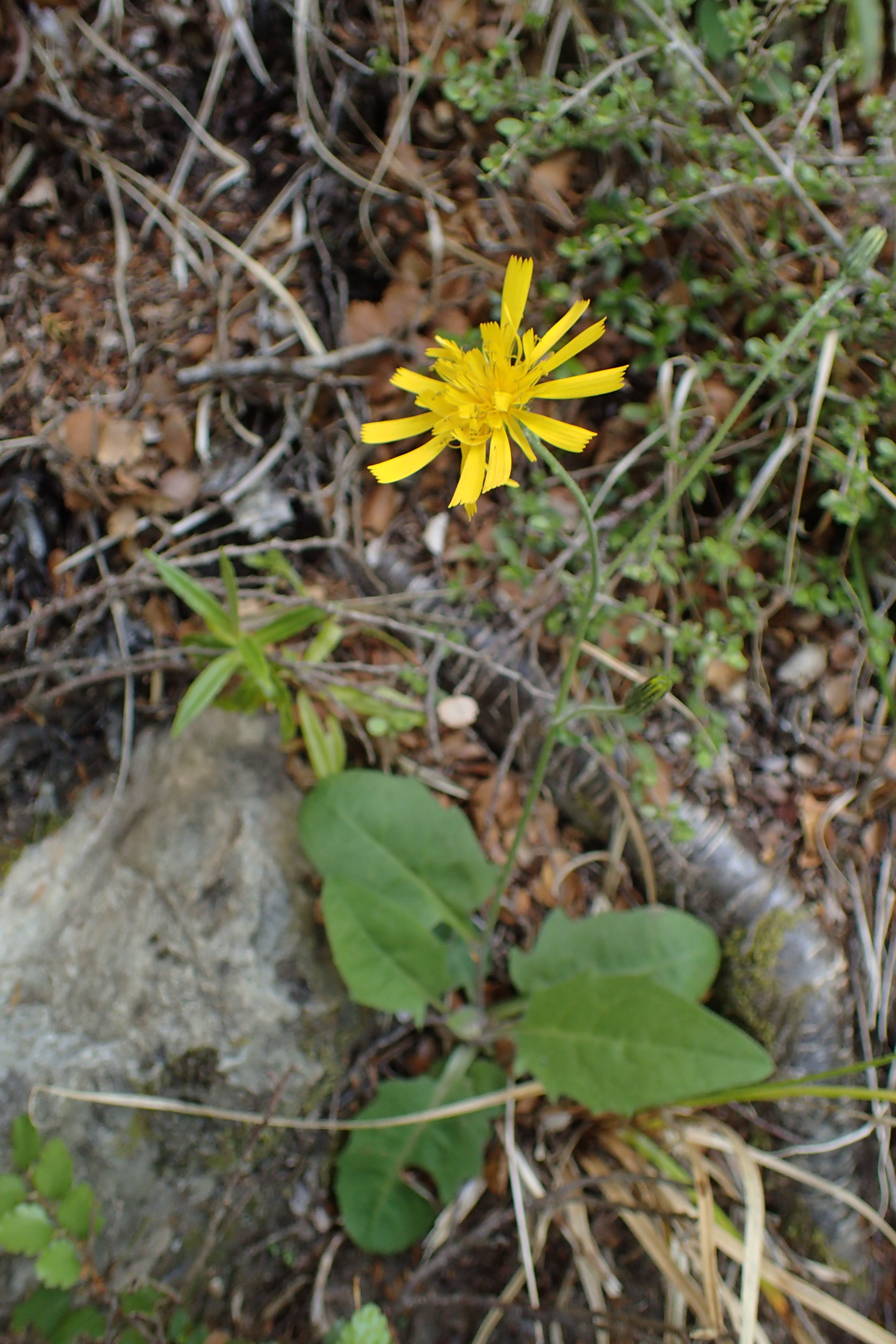 Hieracium murorum in Aoraki Mt Cook Village, Canterbury (New Zealand)